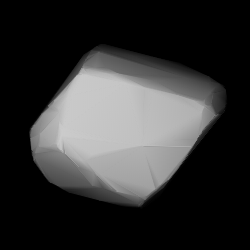 3D convex shape model of 1637 Swings, computed using light curve inversion techniques. J. Hanuš, J. Ďurech, M. Brož, B. D. Warner (June 2011). "A study of asteroid pole-latitude distribution based on an extended set of shape models derived by the lightcurve inversion method". Astronomy and Astrophysics 530: A134. ISSN 0004-6361. arXiv